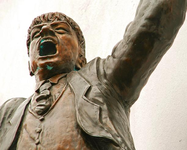 Larkin statue in Belfast by the Belfast artist Anto Brennan: A close look at the man in full flow.